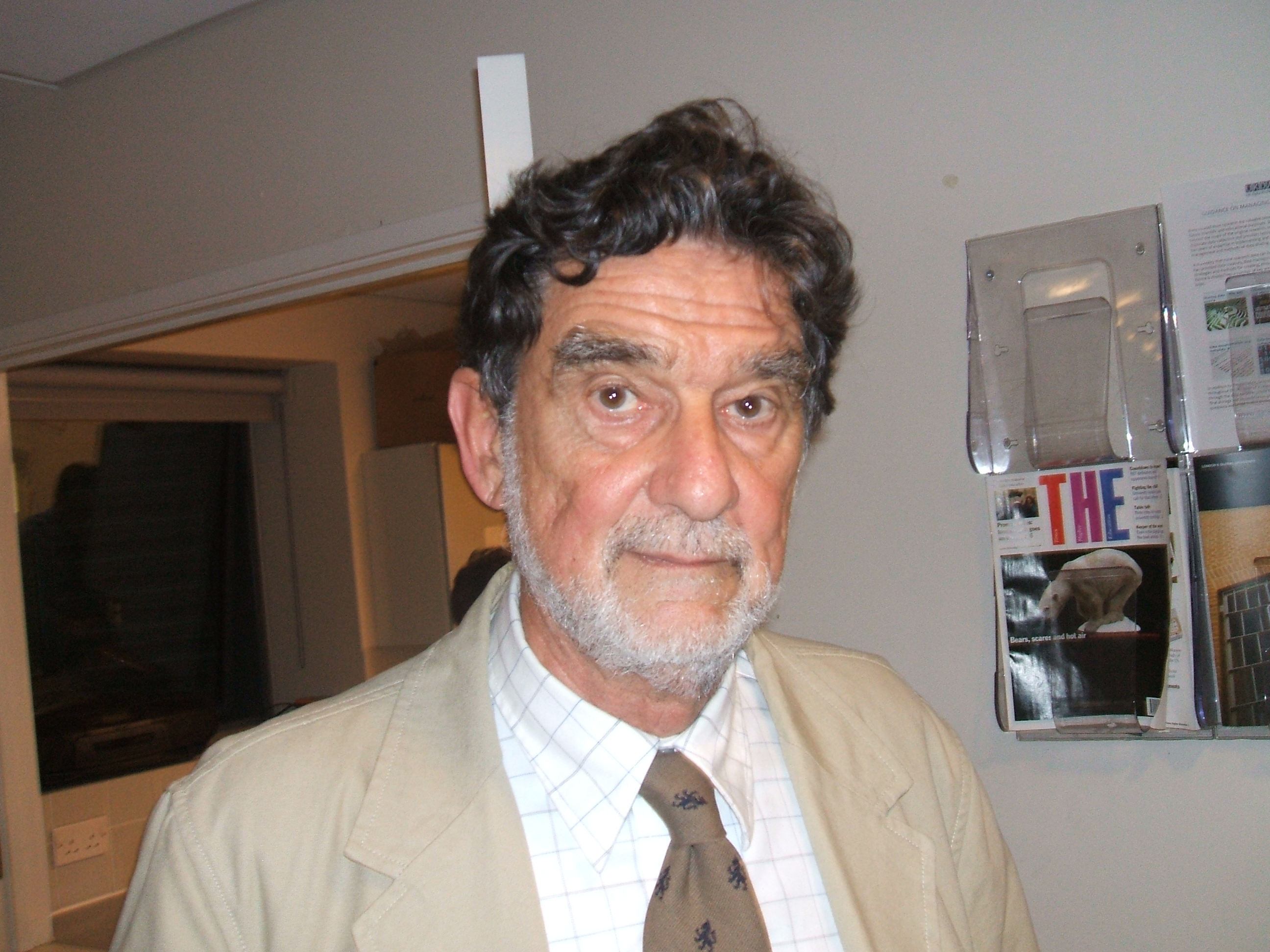 Anthony Oberschall after a lecture in London